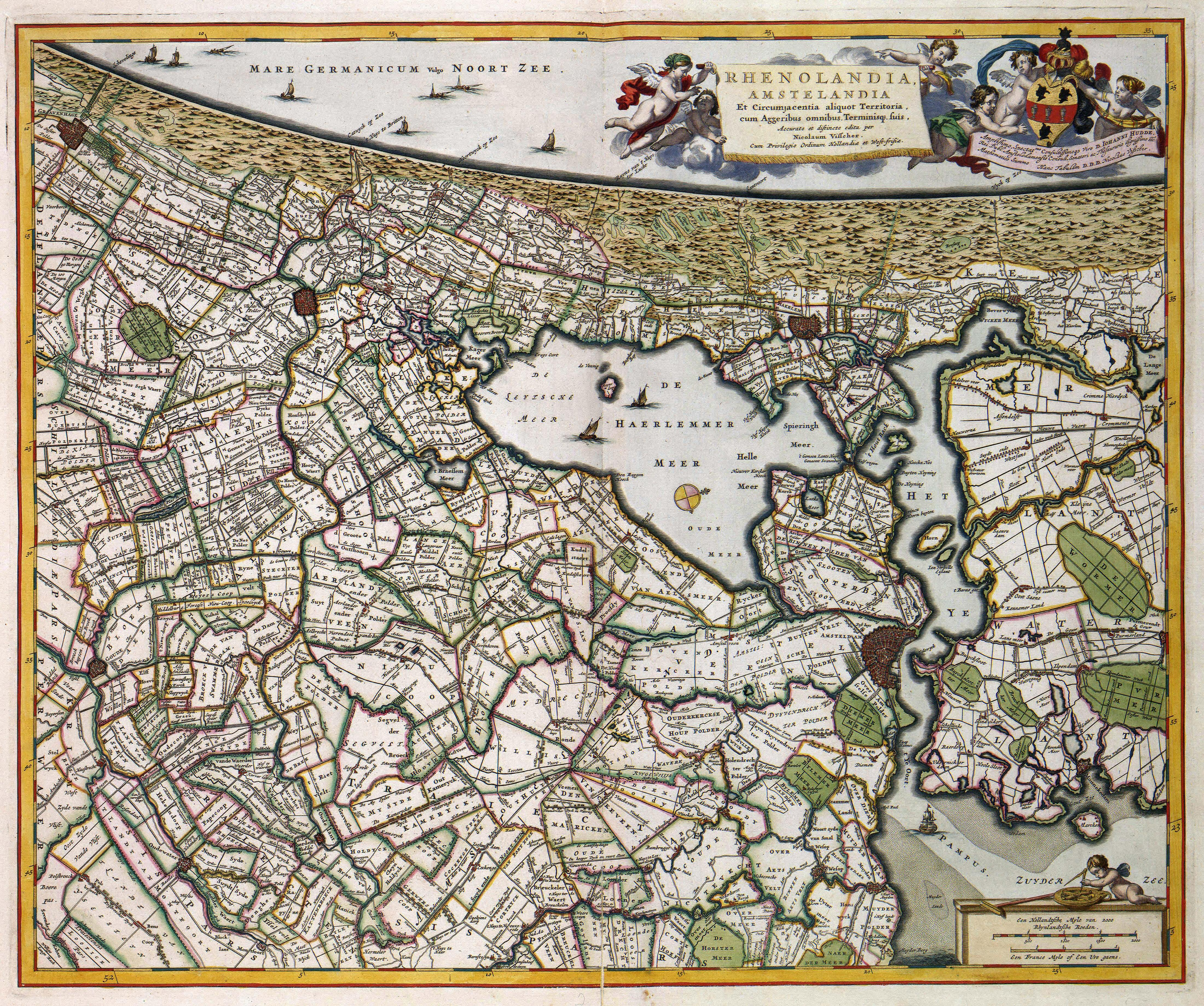 RHENOLANDIA, AMSTELANDIA Et Circumjacentia aliquot Territoria, cum Aggeribus omnibus Terminisq: suis, Accurate et distincte edita (historic map of Rijnland and Amstelland, Holland)